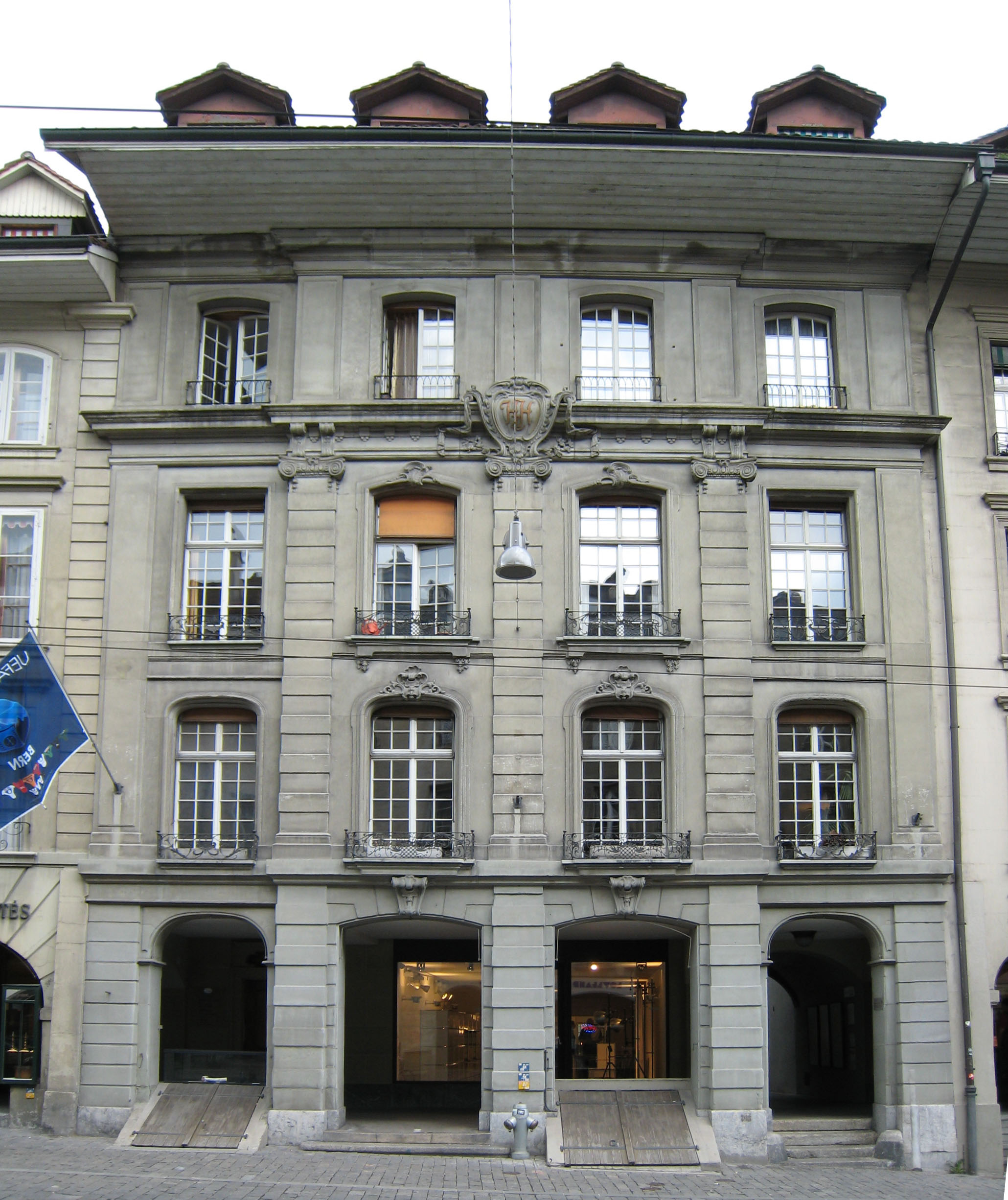 Gerechtigkeitsgasse 52, Berne (Switzerland). Built 1760, this is considered to be Niklaus Sprüngli's best town house.